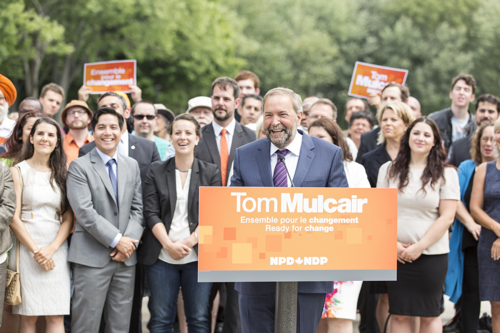 Tom Mulcair and QC NDP MPs in Montreal, August 2015